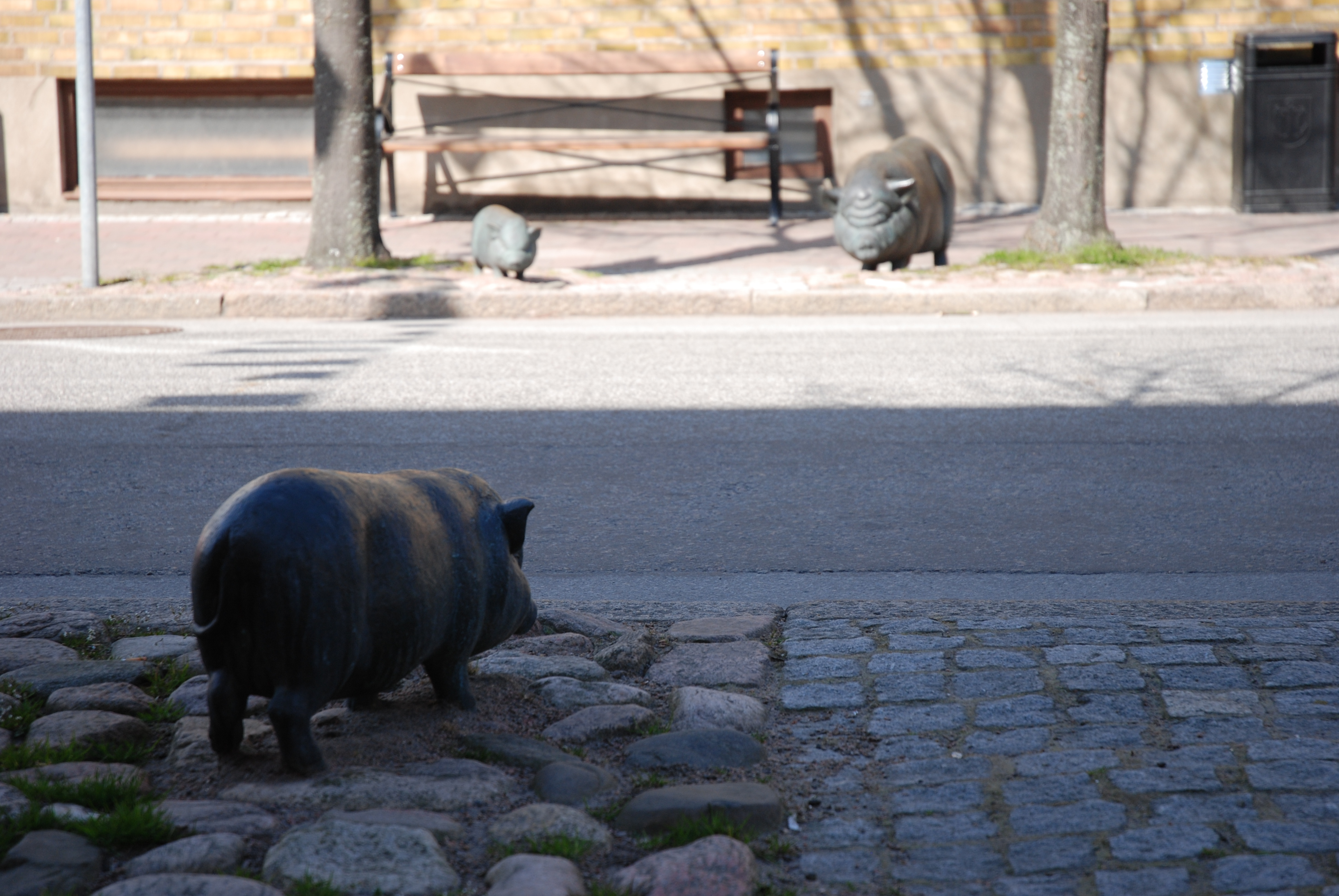 Aline Magnusson´s På upptäcktsfärd (On exploration, 2001), brons, Höganäs, Sweden